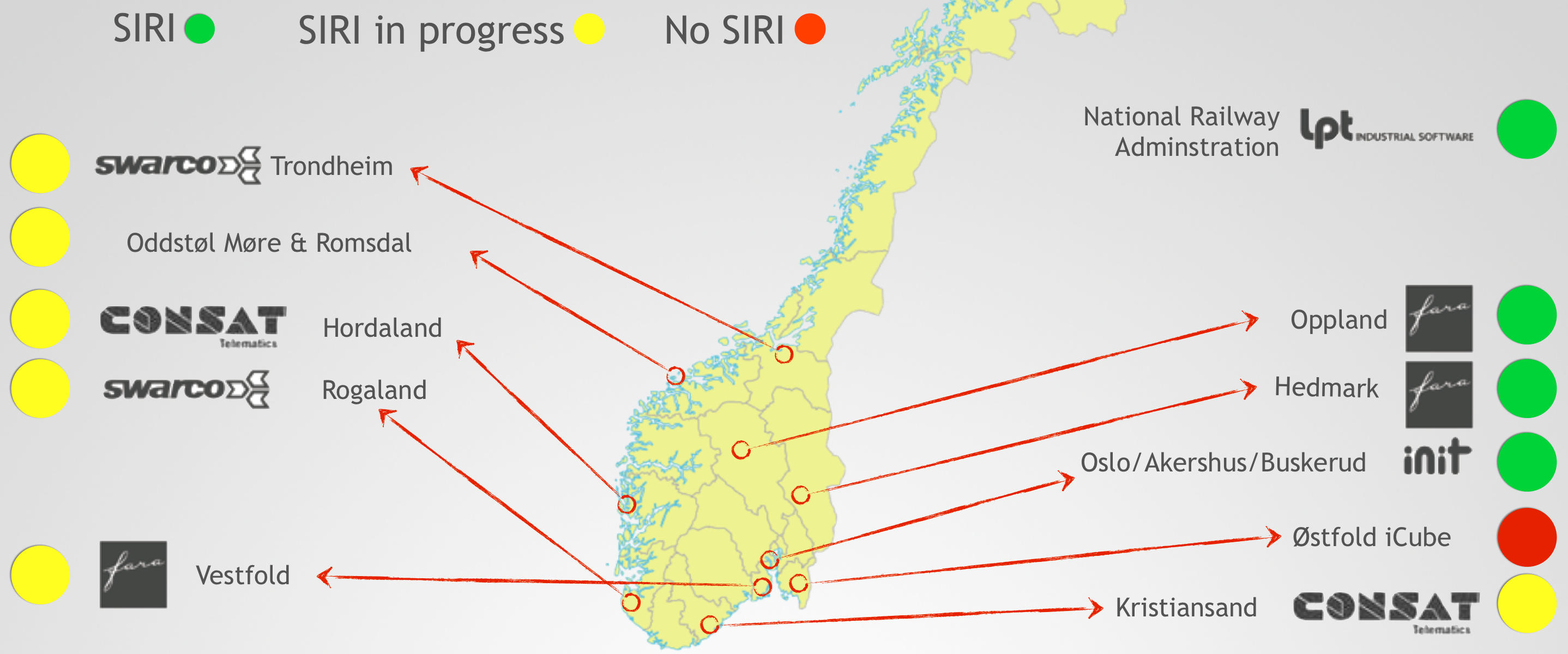 Overview of SIRI support in NorwayNorsk bokmål: Oversikt over SIRI implementasjon i Norge